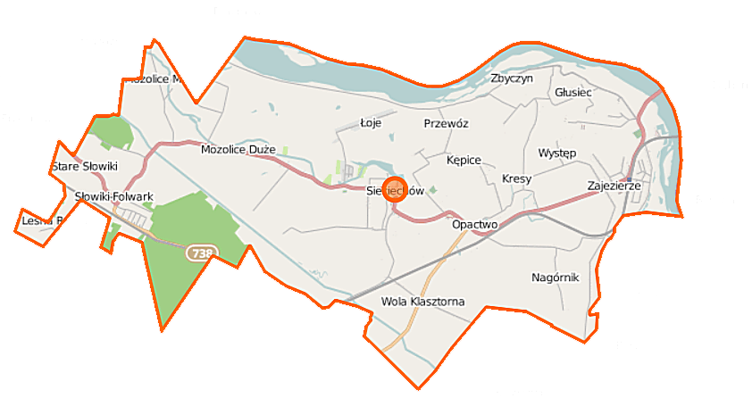 Map of Gmina Sieciechów, Poland This map of Sieciechów (gmina) was created from OpenStreetMap project data, collected by the community. This map may be incomplete, and may contain errors. Don't rely solely on it for navigation. Border coordinates51.577321.6238←↕→21.854951.4991